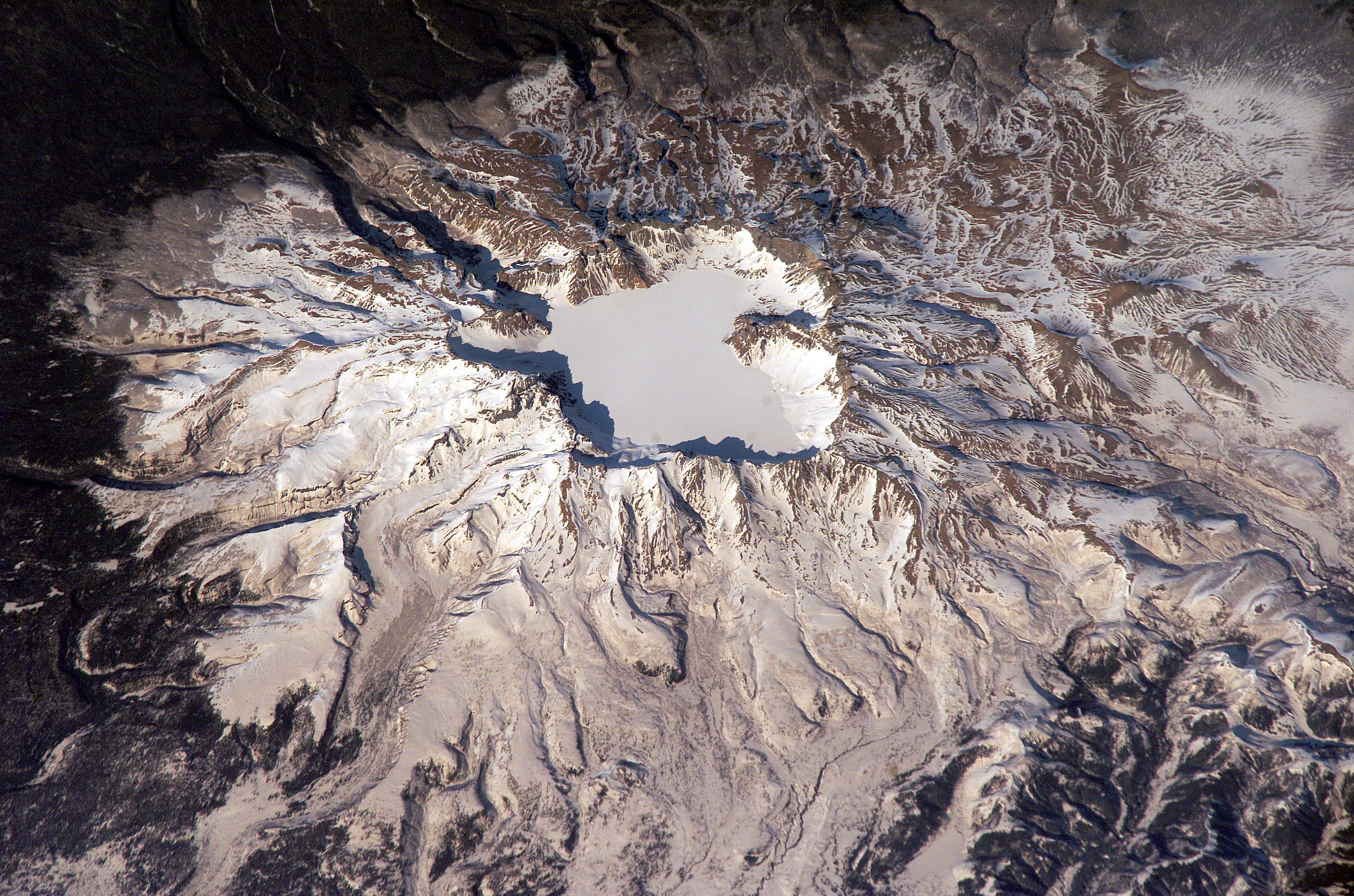 Baitou Mountain—Baekdu — Baitoushan Volcano, in China and North Korea (large version photo). One of the largest known eruptions of the modern geologic period (the Holocene) occurred at Baitoushan Volcano (also known as Changbaishan in China and P'aektu-san in Korea) about 1000 CE, with erupted material deposited as far away as northern Japan—a distance of approximately 1,200 kilometers. The eruption also created the 4.5-kilometer-diameter, 850-meter-deep summit caldera of the volcano, which is now filled with the waters of Lake Tianchi (or Sky Lake). This oblique astronaut photograph was taken during the winter season, and snow highlights frozen Lake Tianchi and lava flow lobes along the southern face of the volcano. Baitoushan last erupted in 1702, and geologists consider it to be dormant. Gas emissions were reported from the summit and nearby hot springs in 1994, but no evidence of renewed activity of the volcano was observed. The Chinese-Korean border runs directly through the center of the summit caldera, and the mountain is considered sacred by the predominantly Korean population living near the volcano. Lake Tianchi is a popular resort destination, both for its natural beauty and alleged sightings of unidentified creatures living in its depths (similar to the legendary Loch Ness Monster in Scotland).